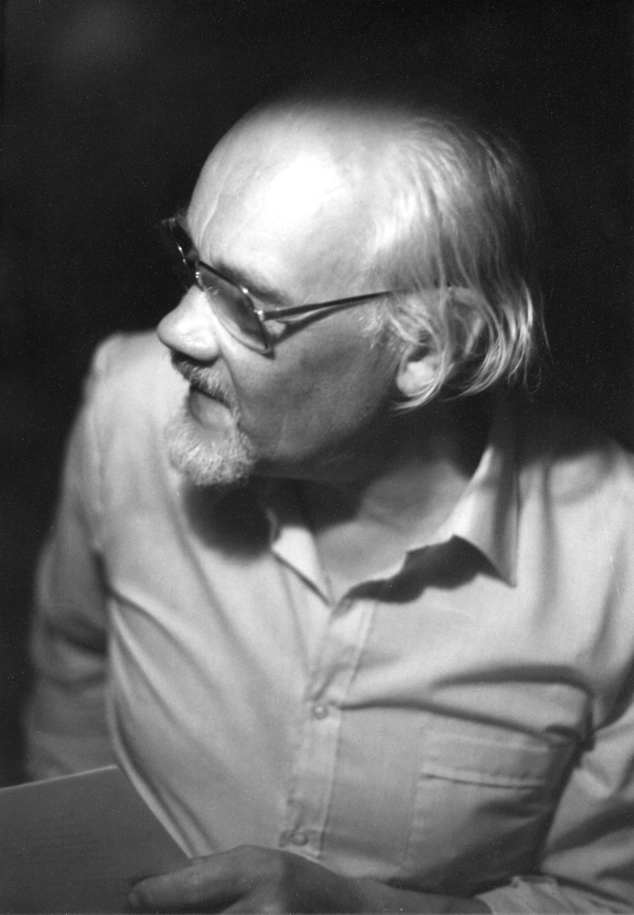 Gideon Schüler, 1990